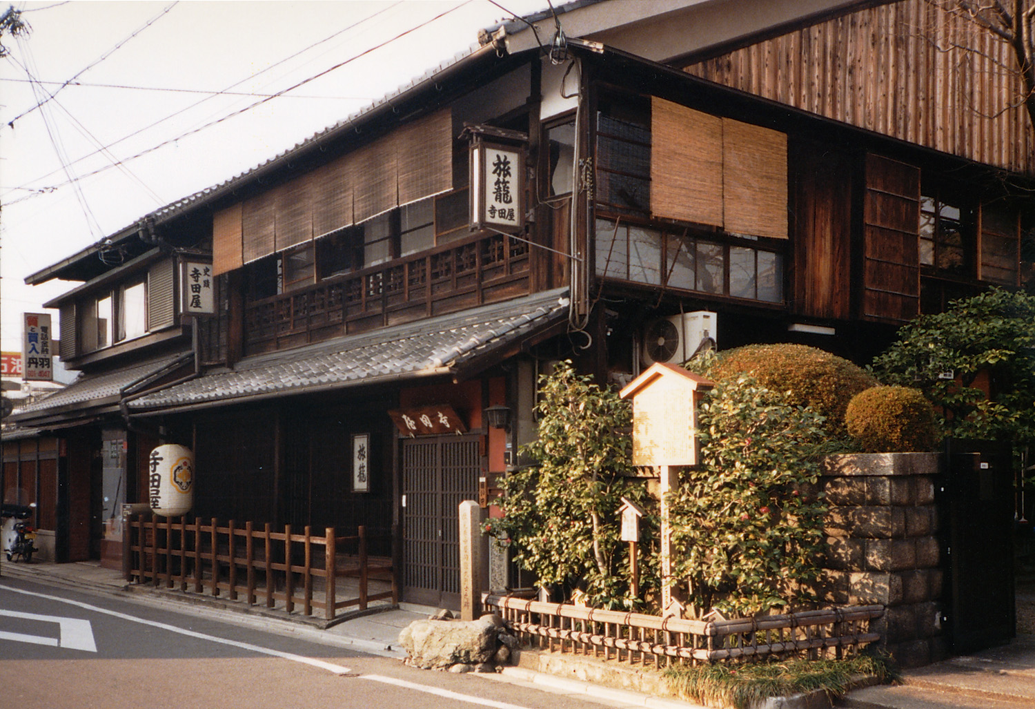 Hatago Teradaya in Fushimi-ku, Kyoto, Japan, where Sakamoto Ryōma was attacked and injured in the Teradaya Incident.